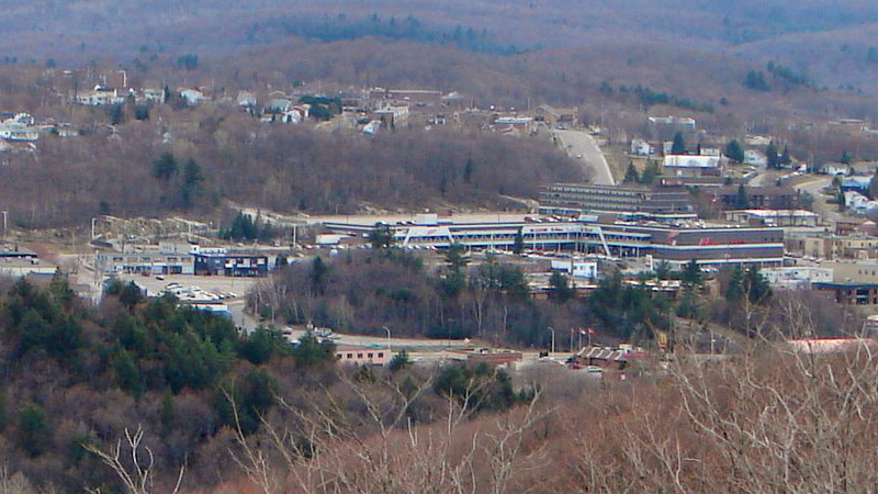 The Algo Mall prior to demolition in Elliot Lake, Ontario, Canada